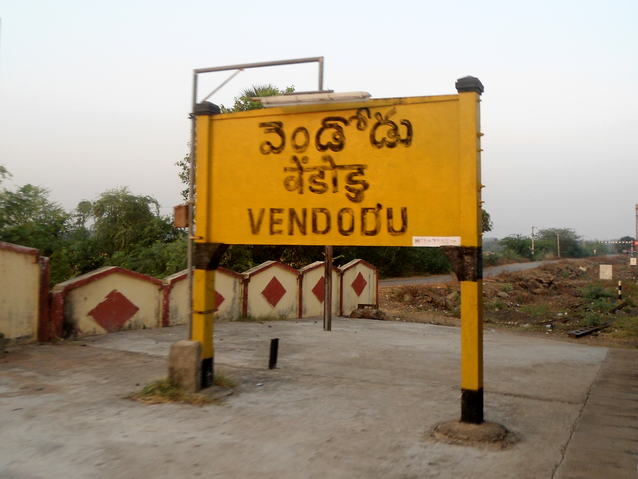 Vendodu Railway station sign board, Andhra Pradesh